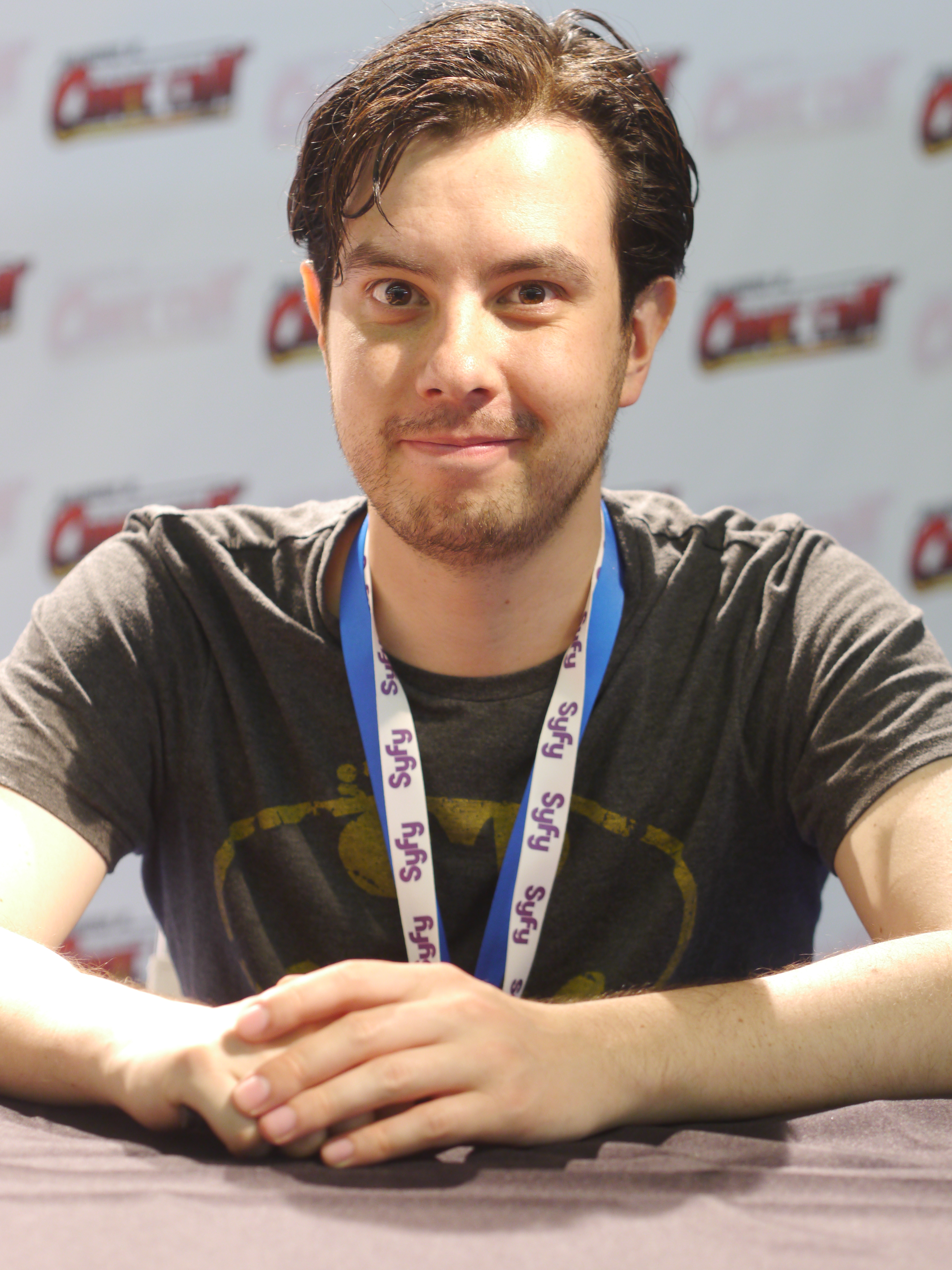 Japan Expo Festival, 14th impact